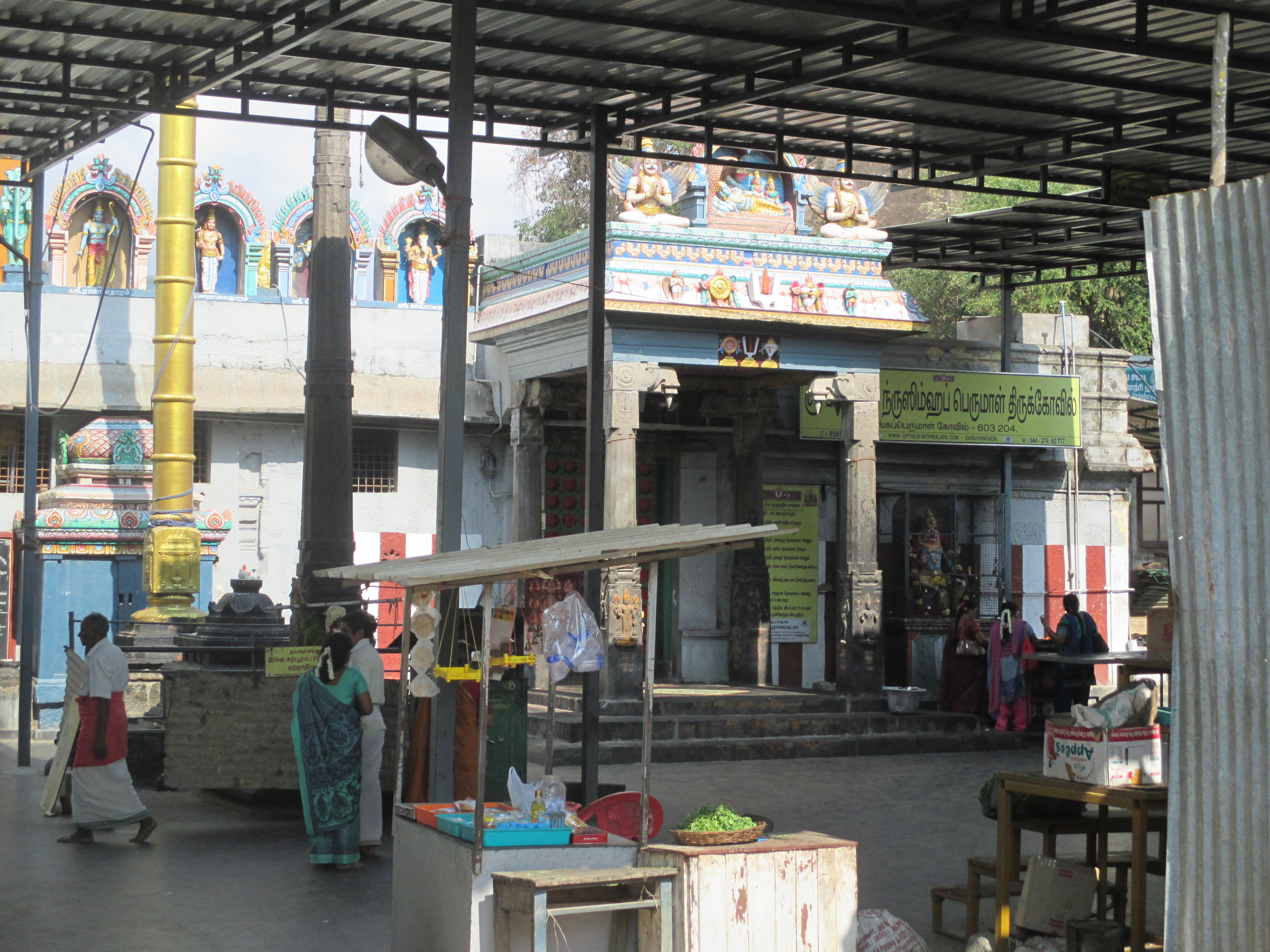 Singaperumalkovil